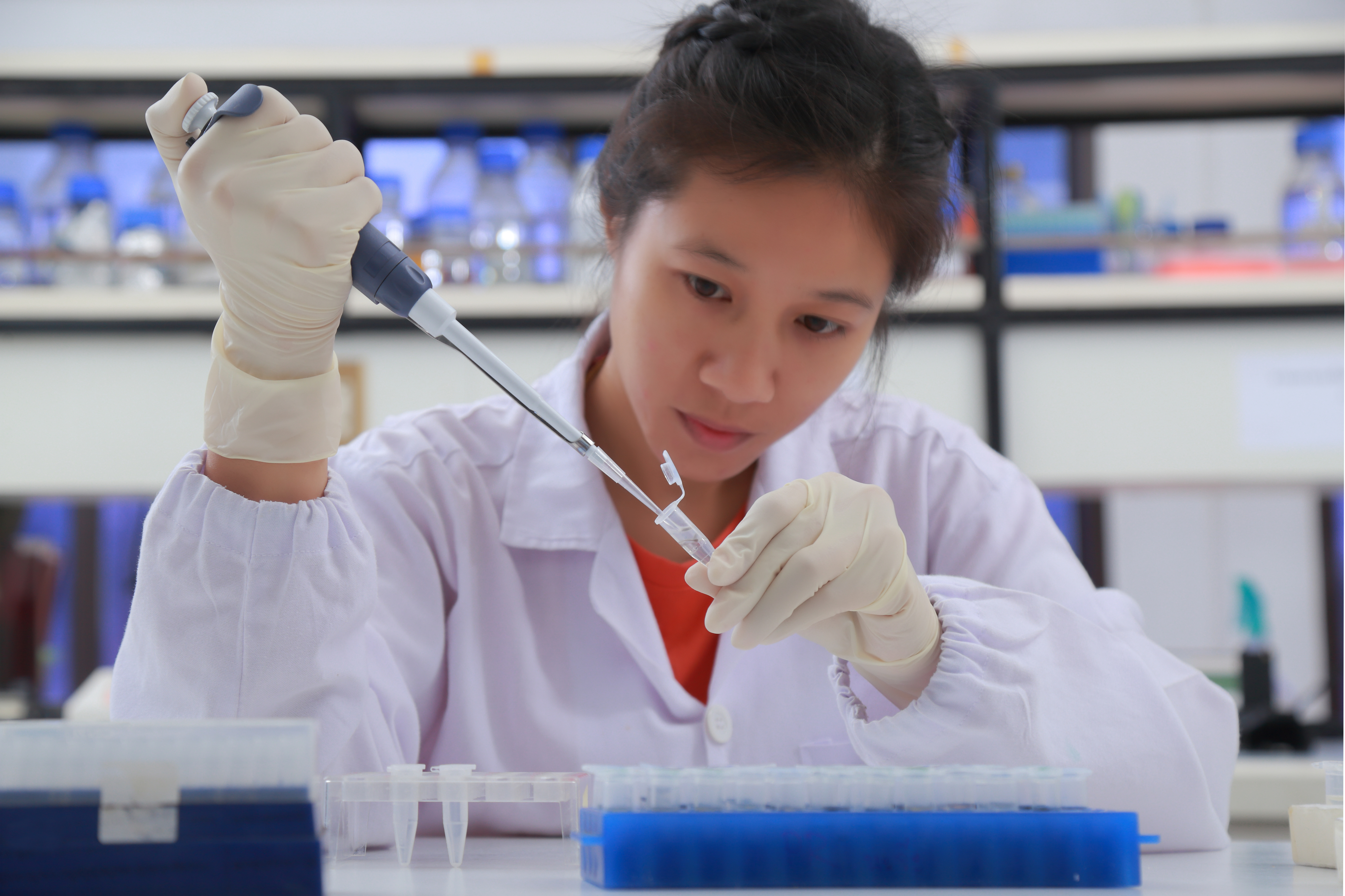 Scientists are working in the lab.